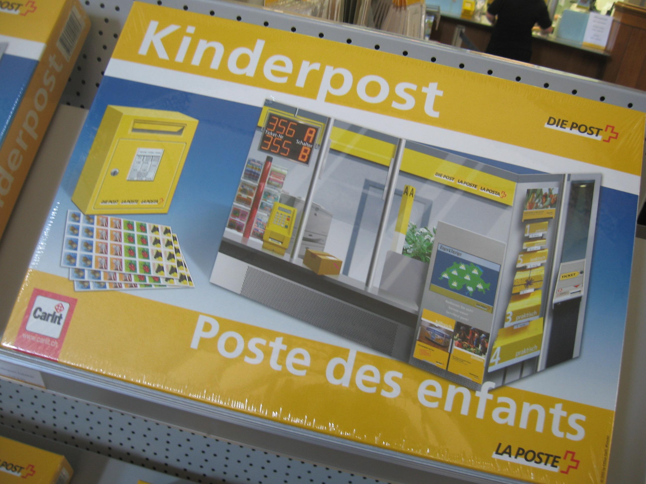 For the little Swiss child who dreams of one day pushing the button that changes the number on the sign.